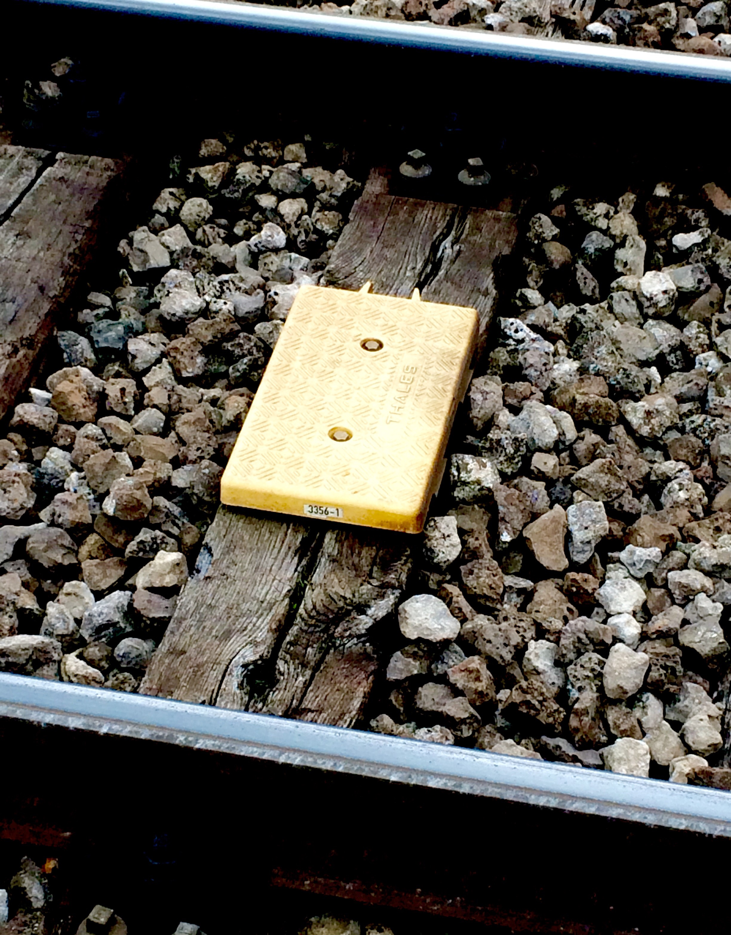 This is a eurobalise of the ETCS system.